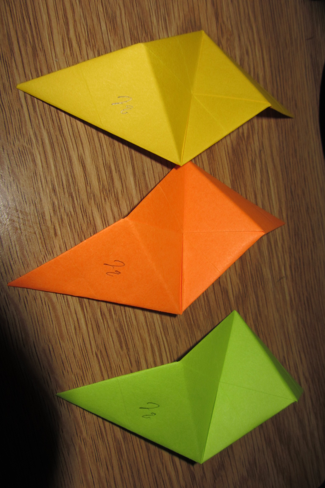 Three Sonobe units, created by Mitsunobu Sonobe, and used to build modular origami.